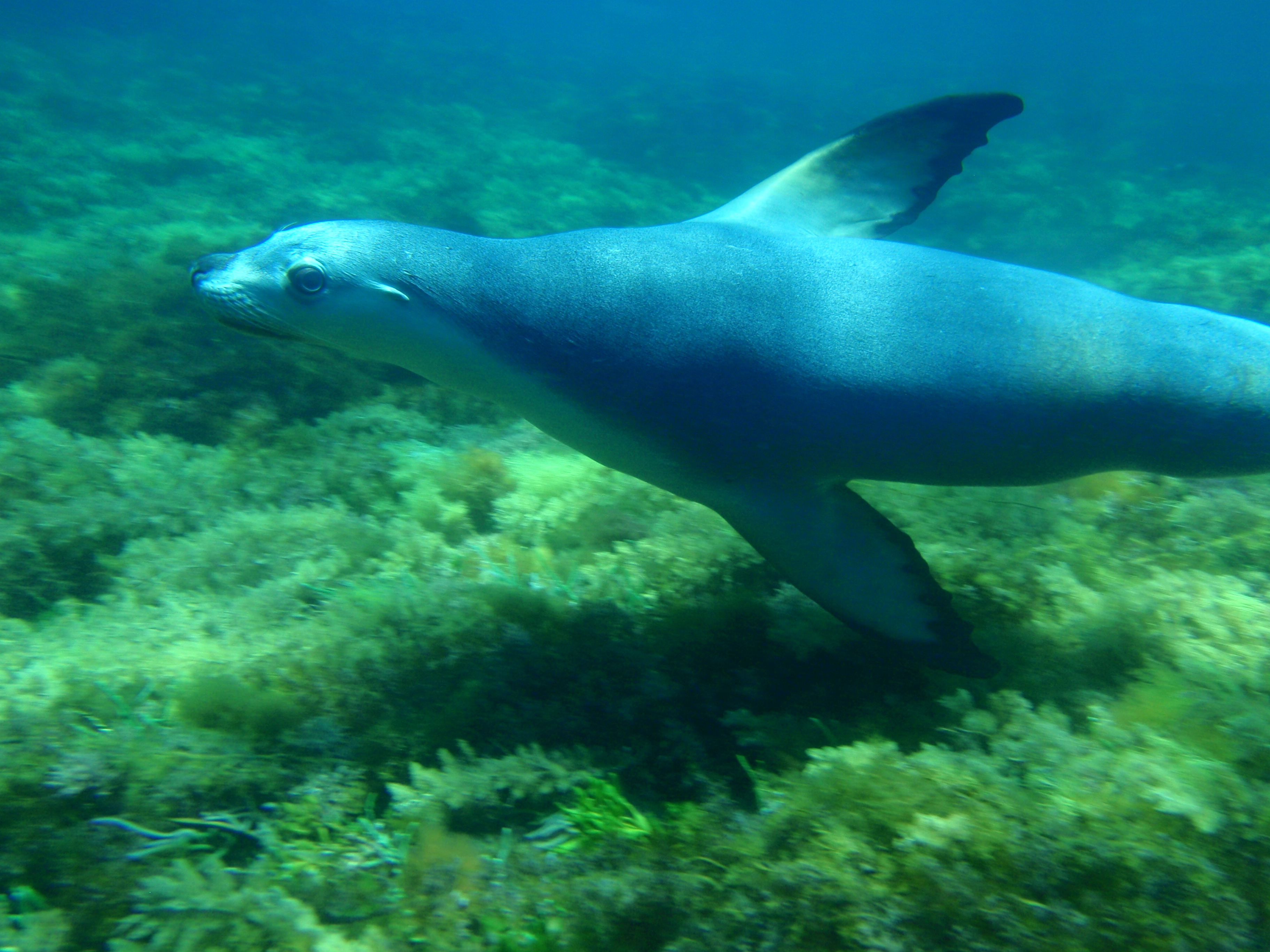 Australian sealion Neophoca cinerea at the east side of Pearson Island, South Australia